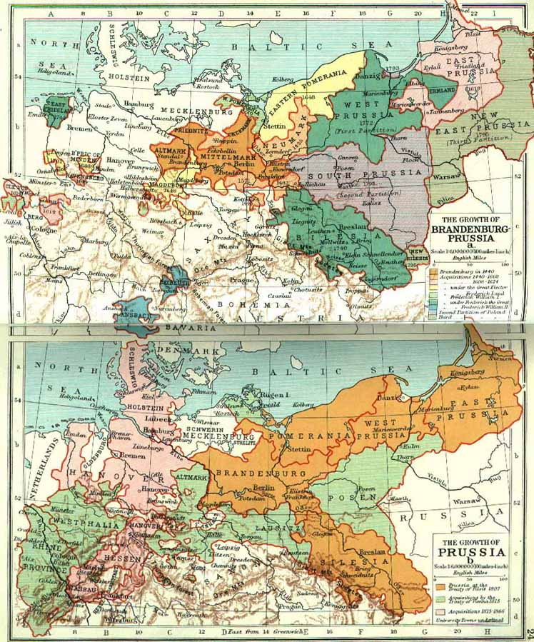 Prussia 1440–1795 and 1807–1866.